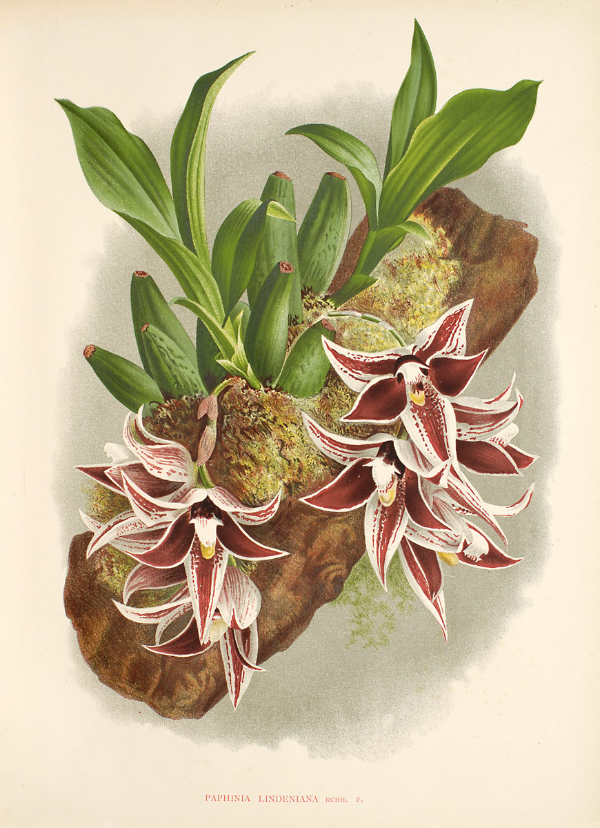 Paphinia lindeniana